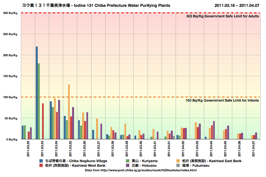 Iodine-131 water contamination in Chiba Prefecture water purifying plants, March 18 to April 7, 2011